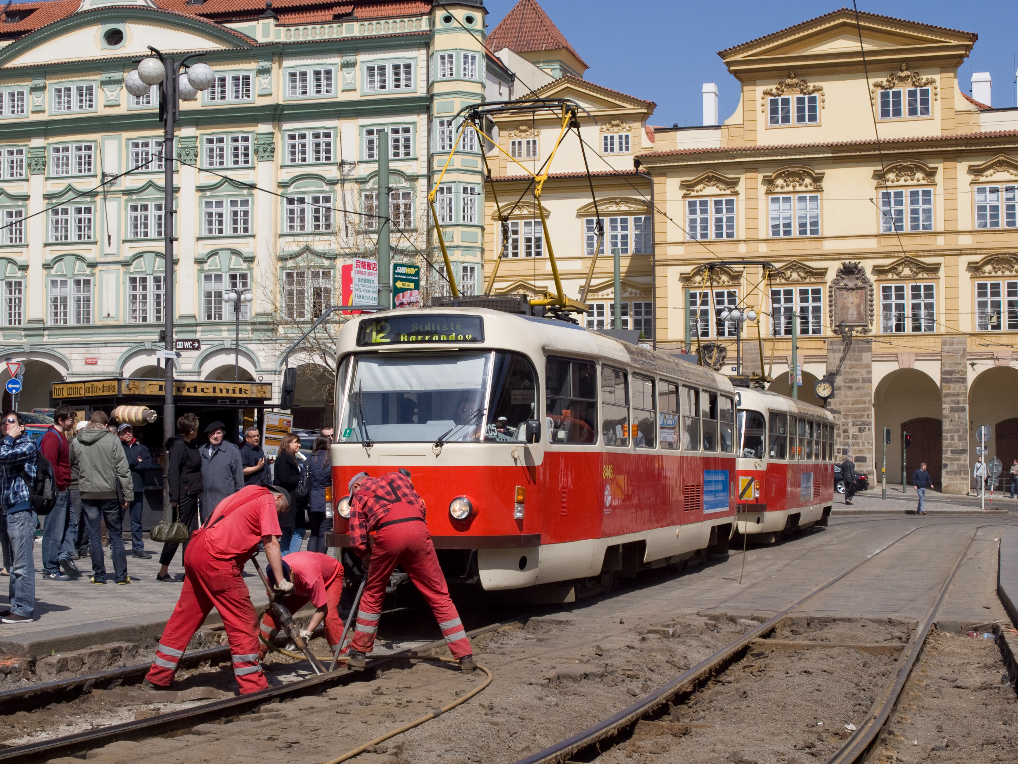 Tatra T3R.P, Reconstruction of tram track at Malostranské náměstí, prague